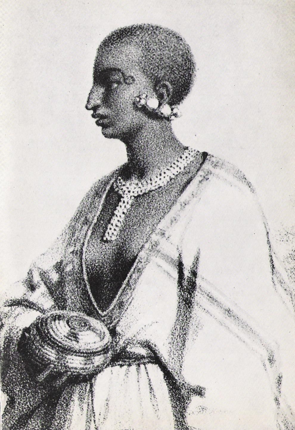 Tenagne Werq Sahle Selassie